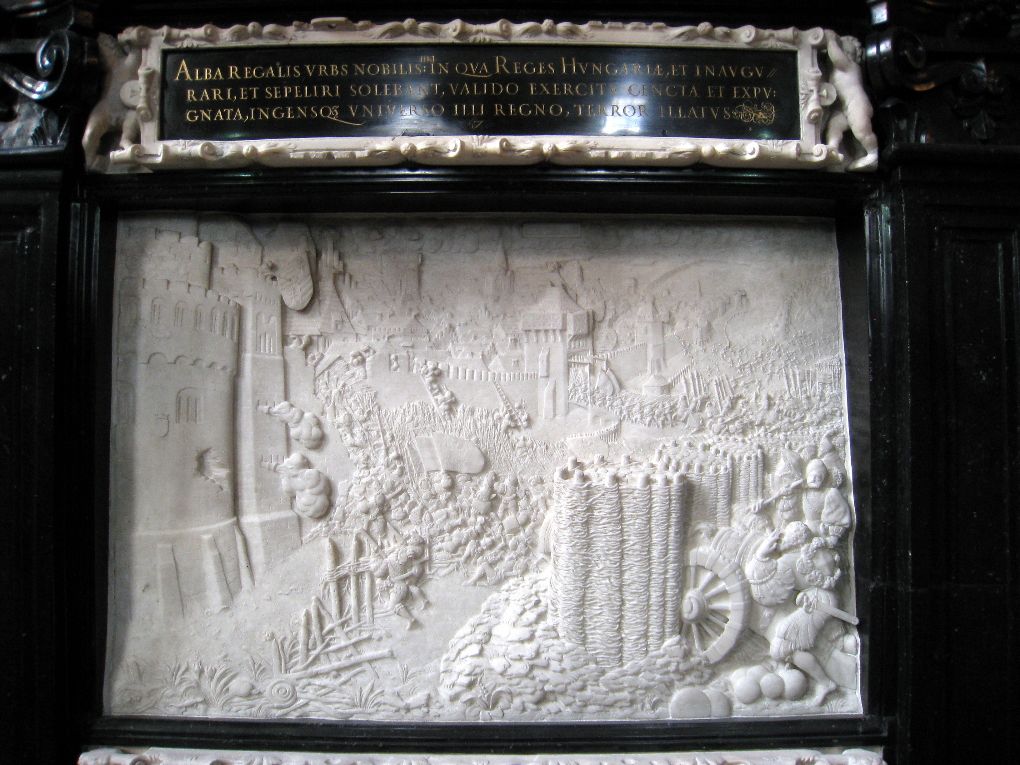 Hofkirche, Innsbruck, Austria - cenotaph of Maximilian I - relief by Alexander Colin based on wood carvings by Albrecht Durer.